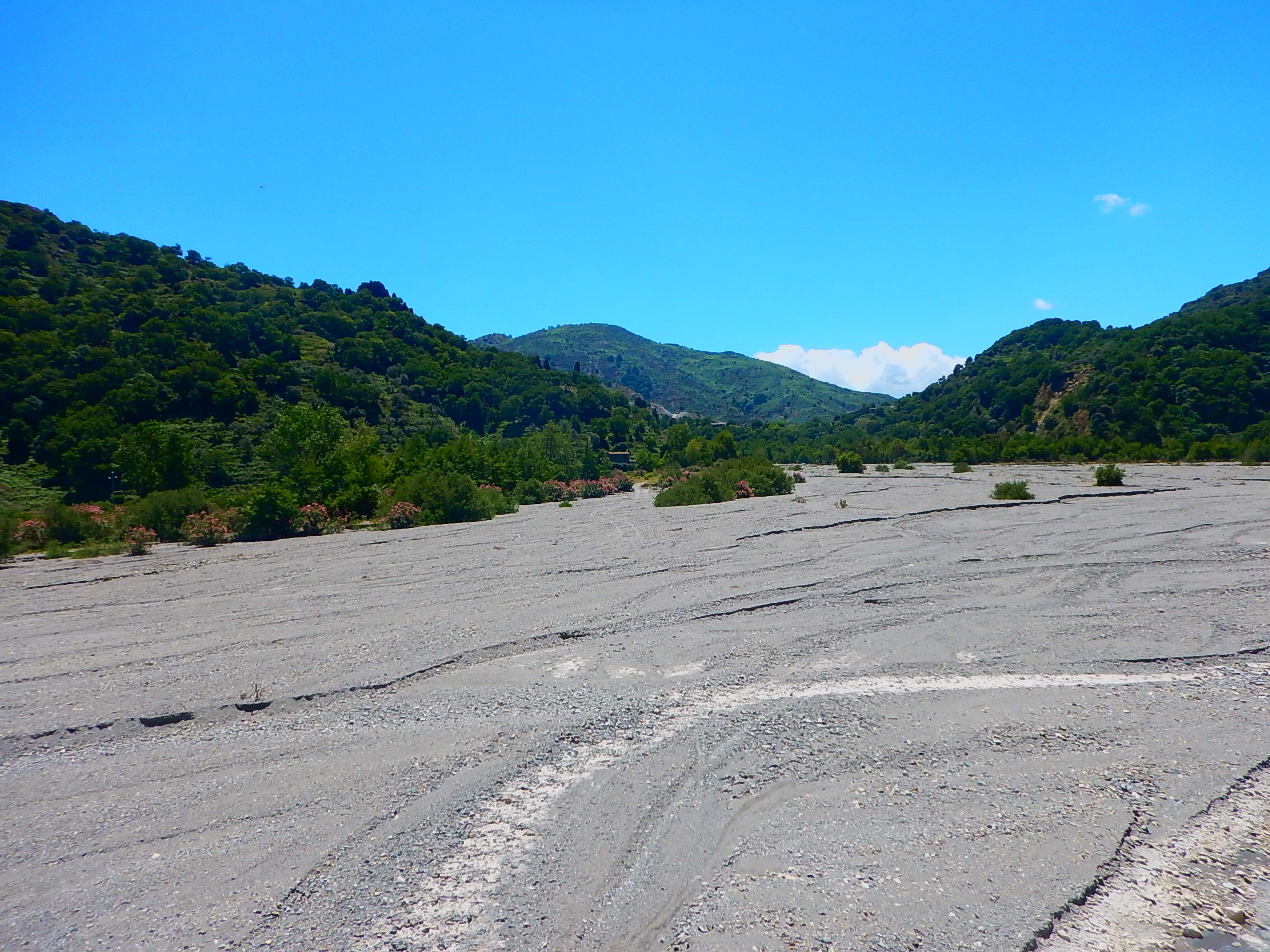 the Patrì river dry between Fondachelli-Fantina and Rodì-Milici,Sicily